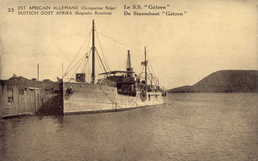 SS Goetzen